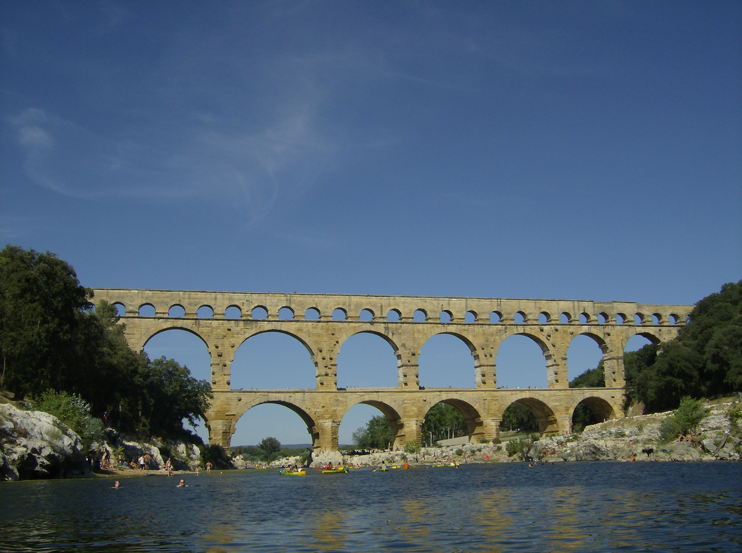 The Pont Du Gard